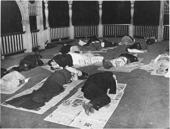 Unemployed workers sleeping in the bandstand at Queen's Park, Toronto, Canada